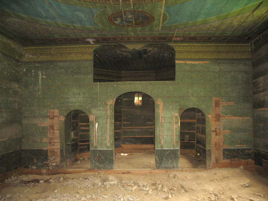 Chyrzynka (Poland), Greek Catholic church